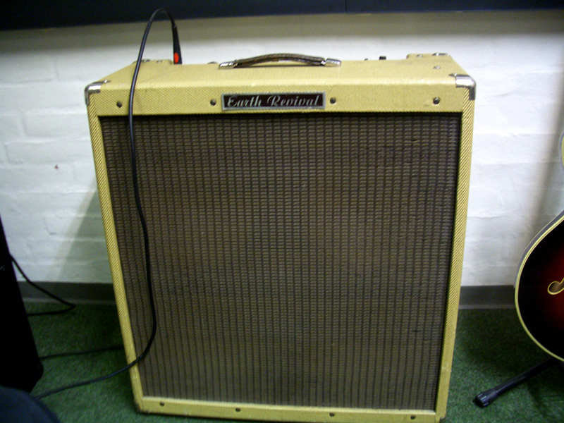 Picture of the front of a Earth Sound Research Earth Revival guitar amplifier